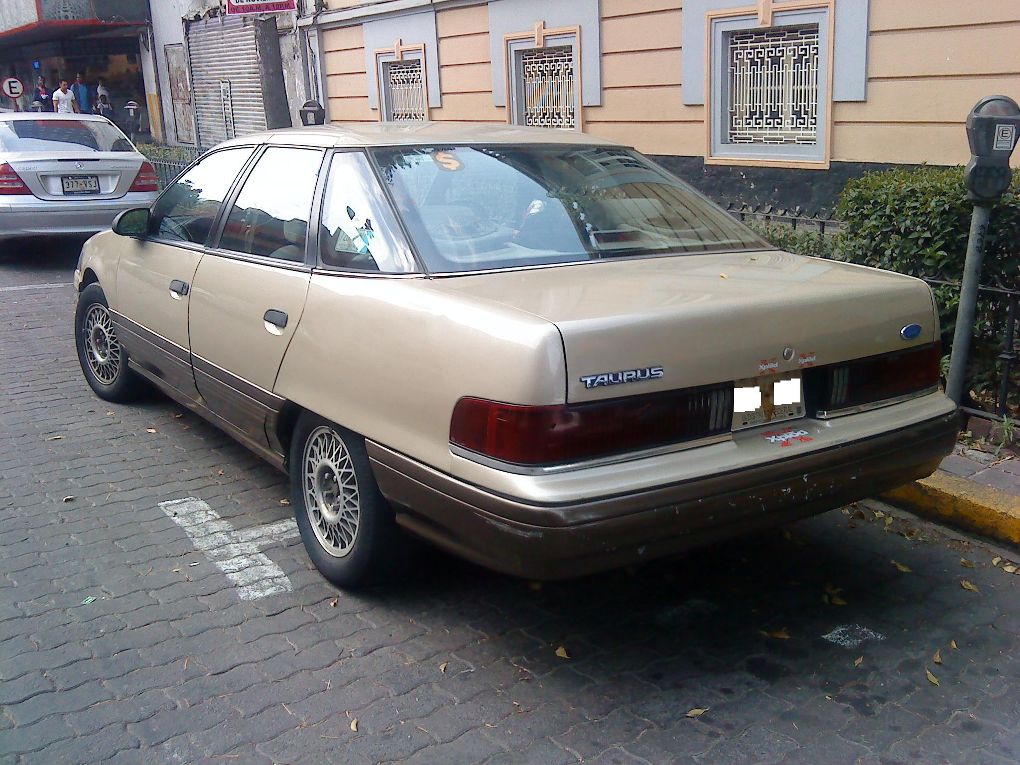 A mexican 1990 Ford Taurus (rebadged Mercury Sable) in Mexico City